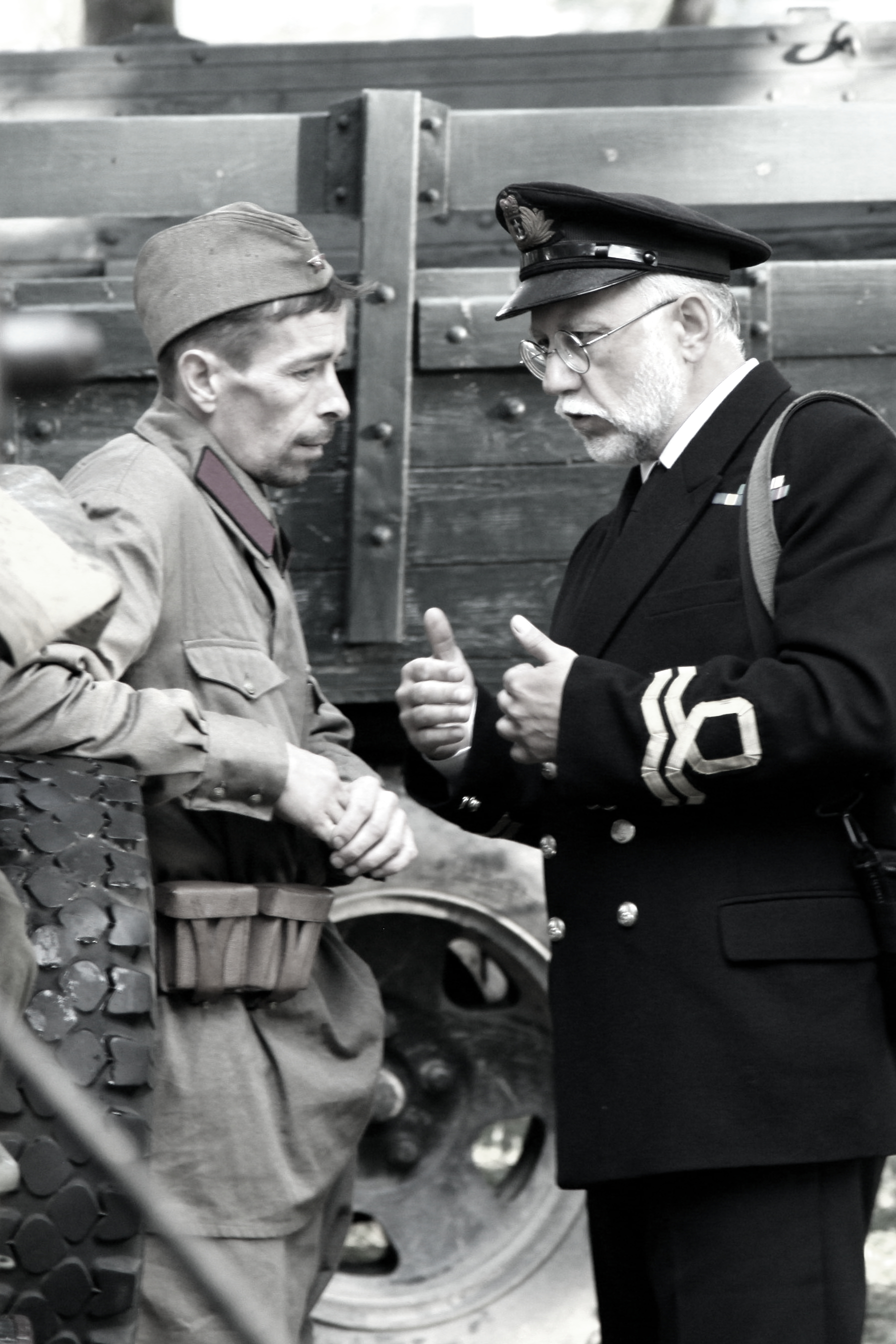 Dervish Convoy-75